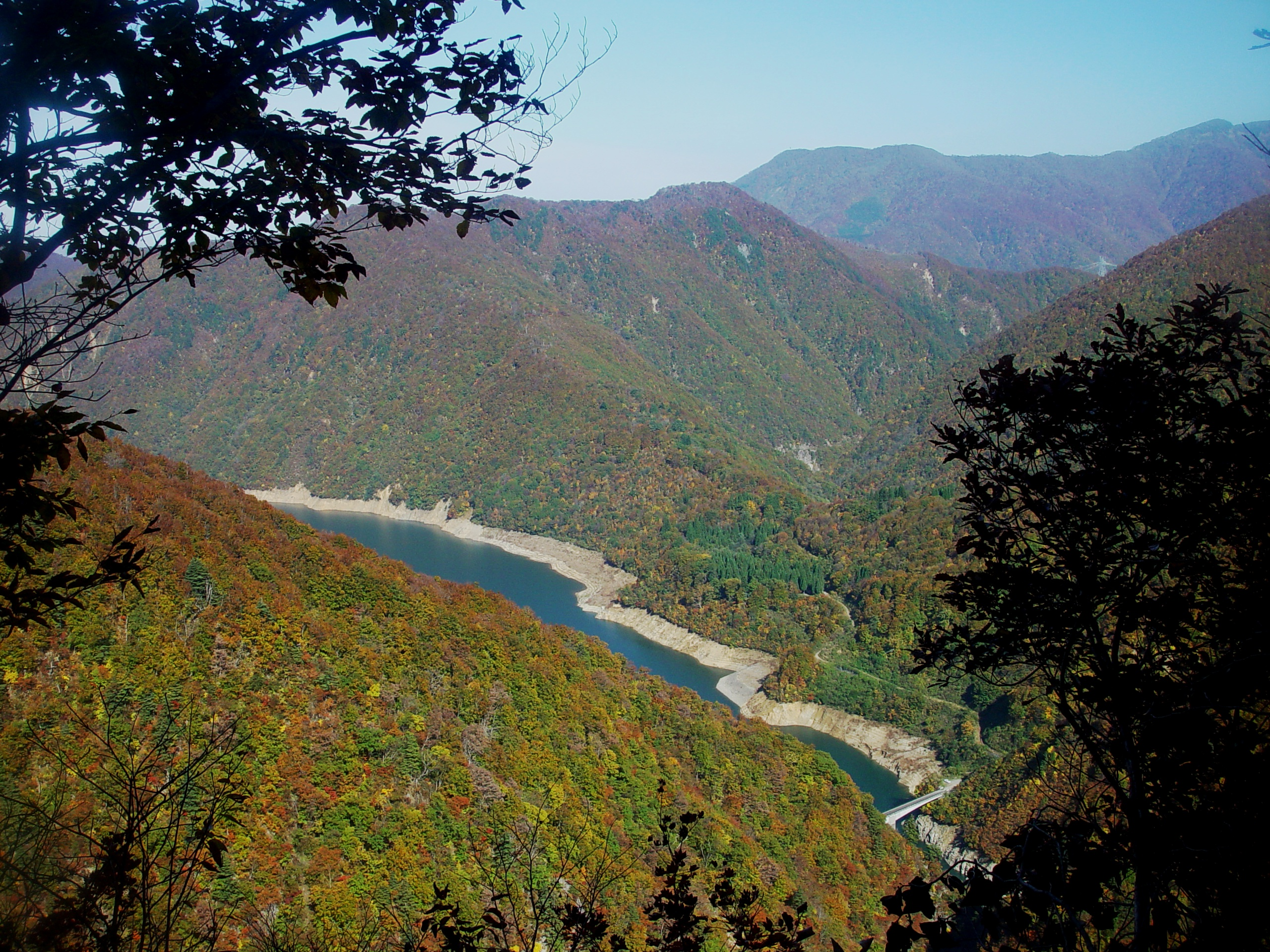 Lake Katsura of Sakaigawa Dam